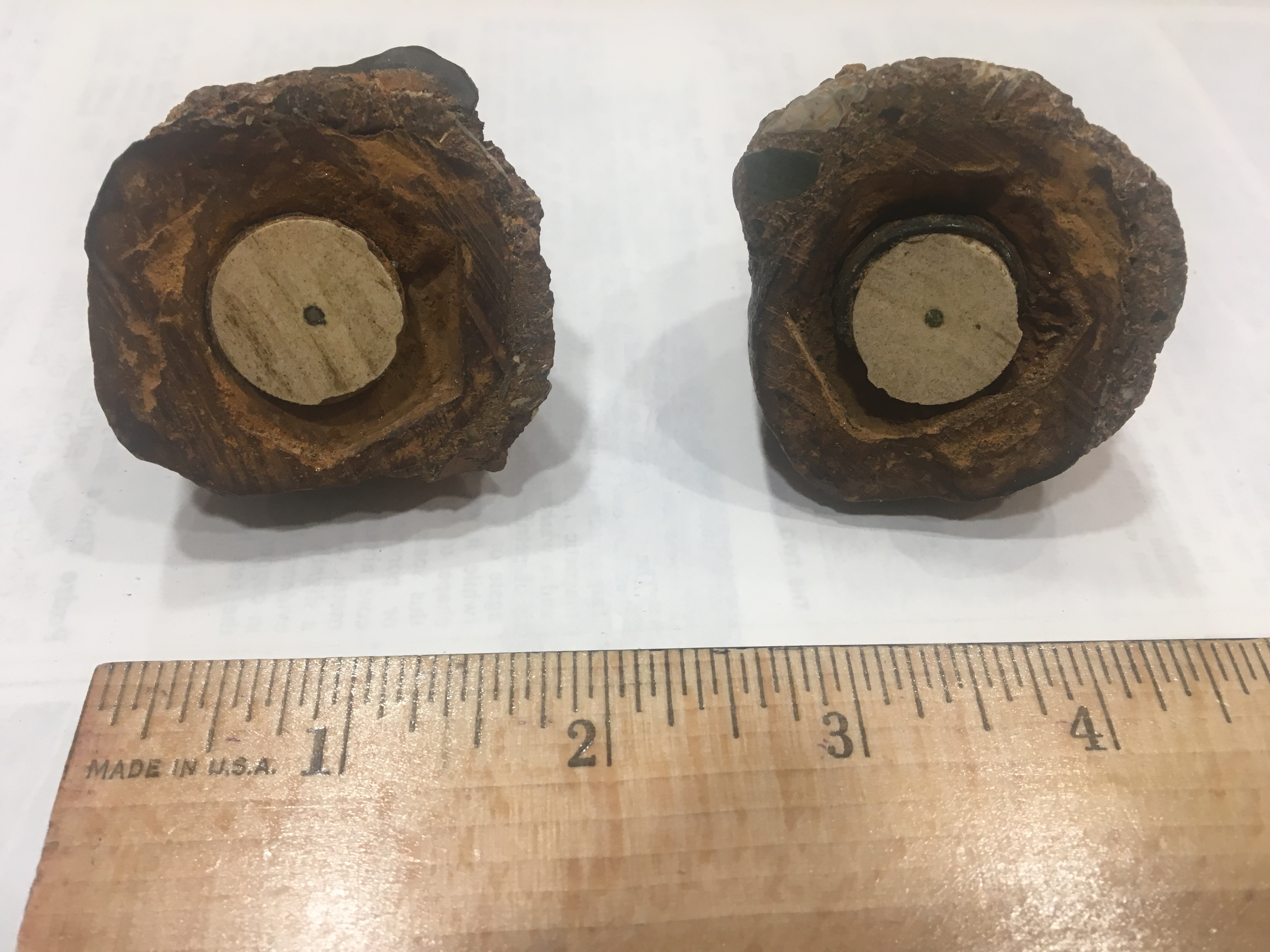 This picture was taken by Pierre Stromberg in 2018 as part of his decades long investigation into the Coso Artifact. The artifact was provided to him for examination by the family of one of the original co-discoverers. After the photograph was taken, Stromberg arranged for the artifact to be put on display at the Pacific Science Center in Seattle, Washington, USA.